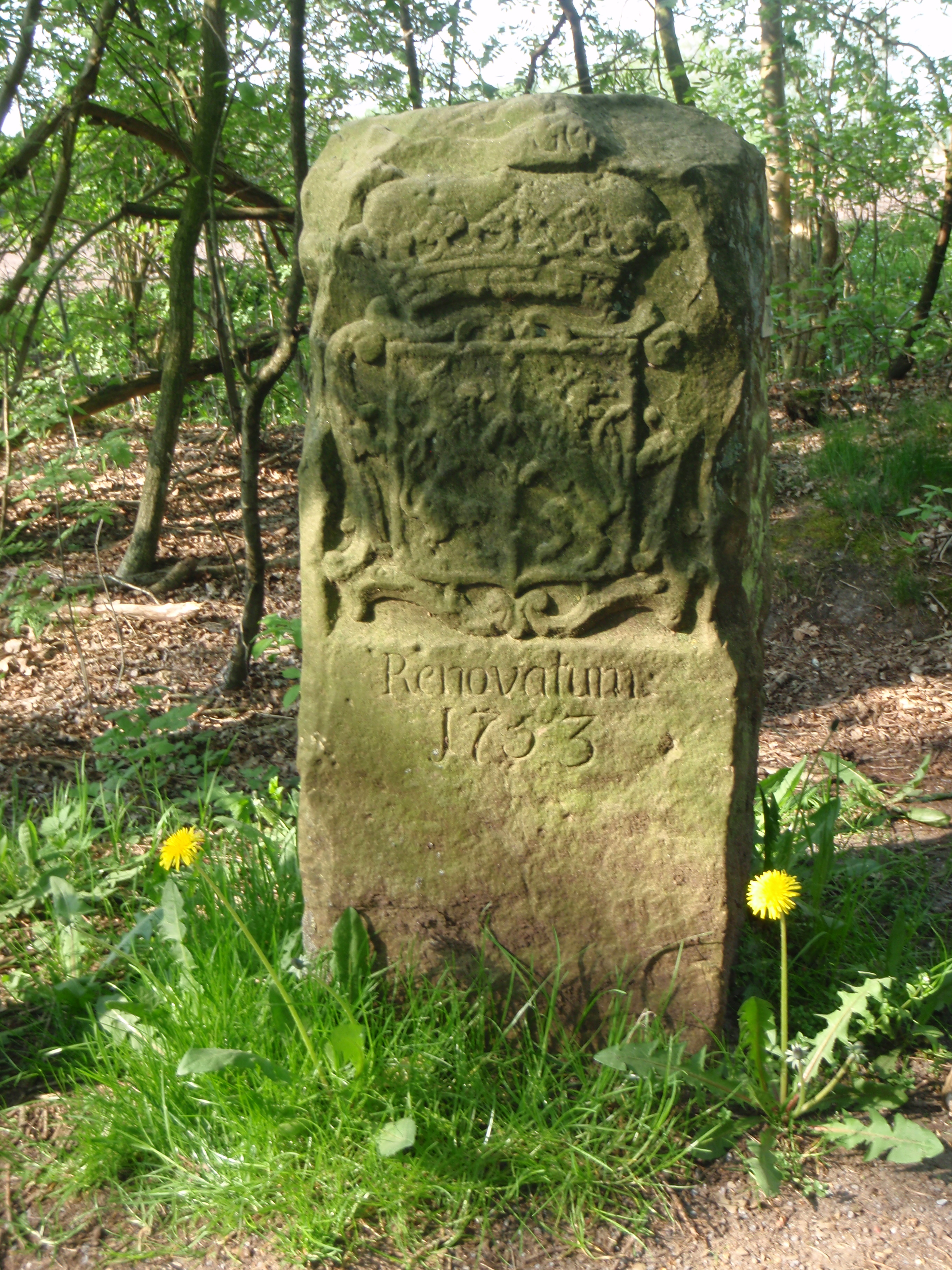 The boundary stone No. 788 between North Rhine-Westphalia, Germany, and Gelderland, Netherlands, from 1753.